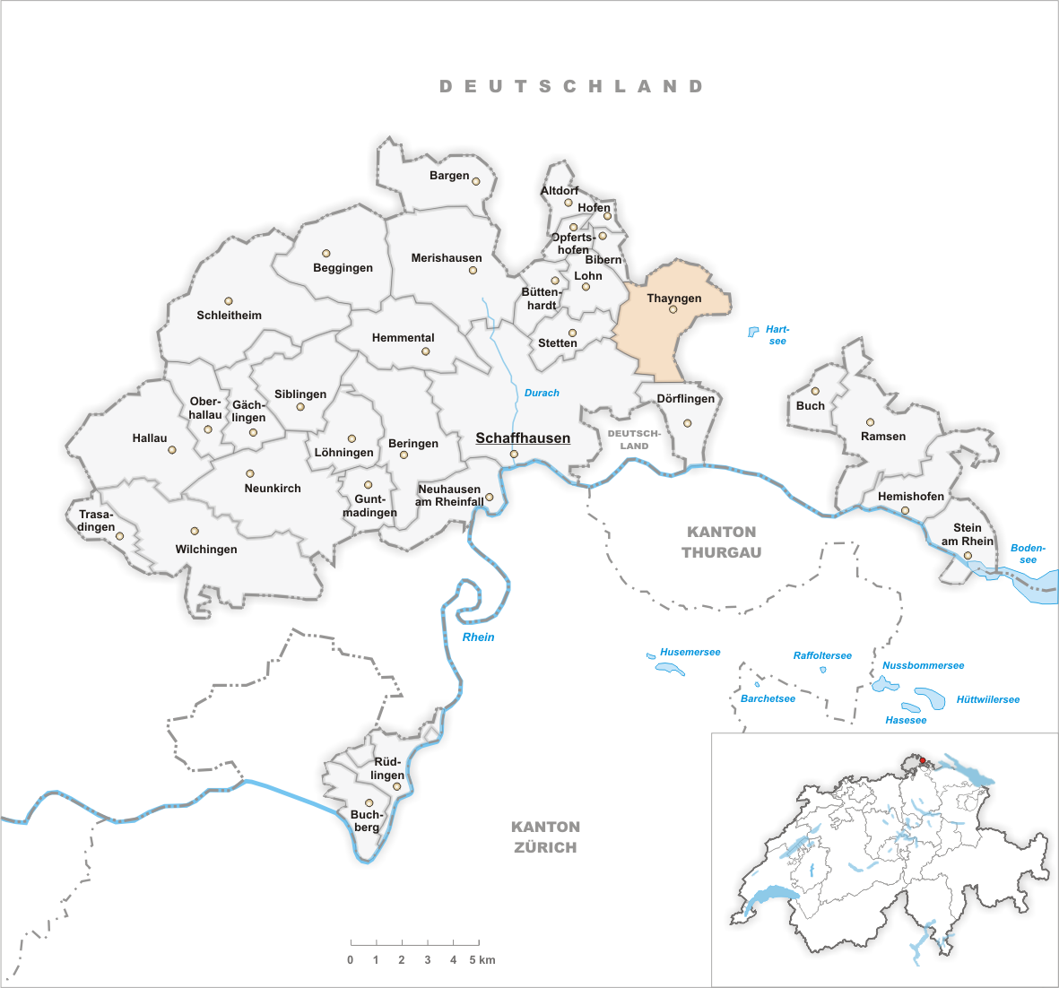 Municipality Thayngen